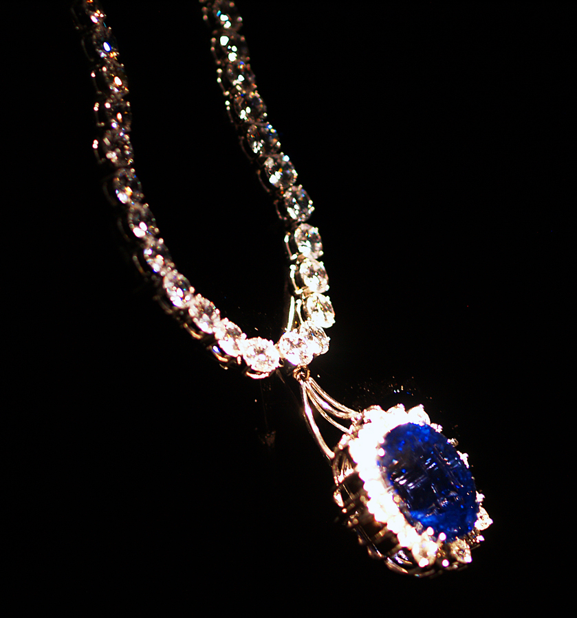 Sapphire and Diamond Pendant Designed and created by Ernesto Moreira Houston, TX 2006 Sapphire (102 carats) and diamond (4.56 carats) pendant. Wikipedia Loves Art at the Houston Museum of Natural Science This photo of item # [1] at the Houston Museum of Natural Science was contributed under the team name "Assignment_Houston_One" as part of the Wikipedia Loves Art project in February 2009. Houston Museum of Natural Science The original photograph on Flickr was taken by sulla55—please add a comment to the original Flickr page whenever a use has been made on Wikipedia or another project. Project galleries on Flickr: this institution, this team